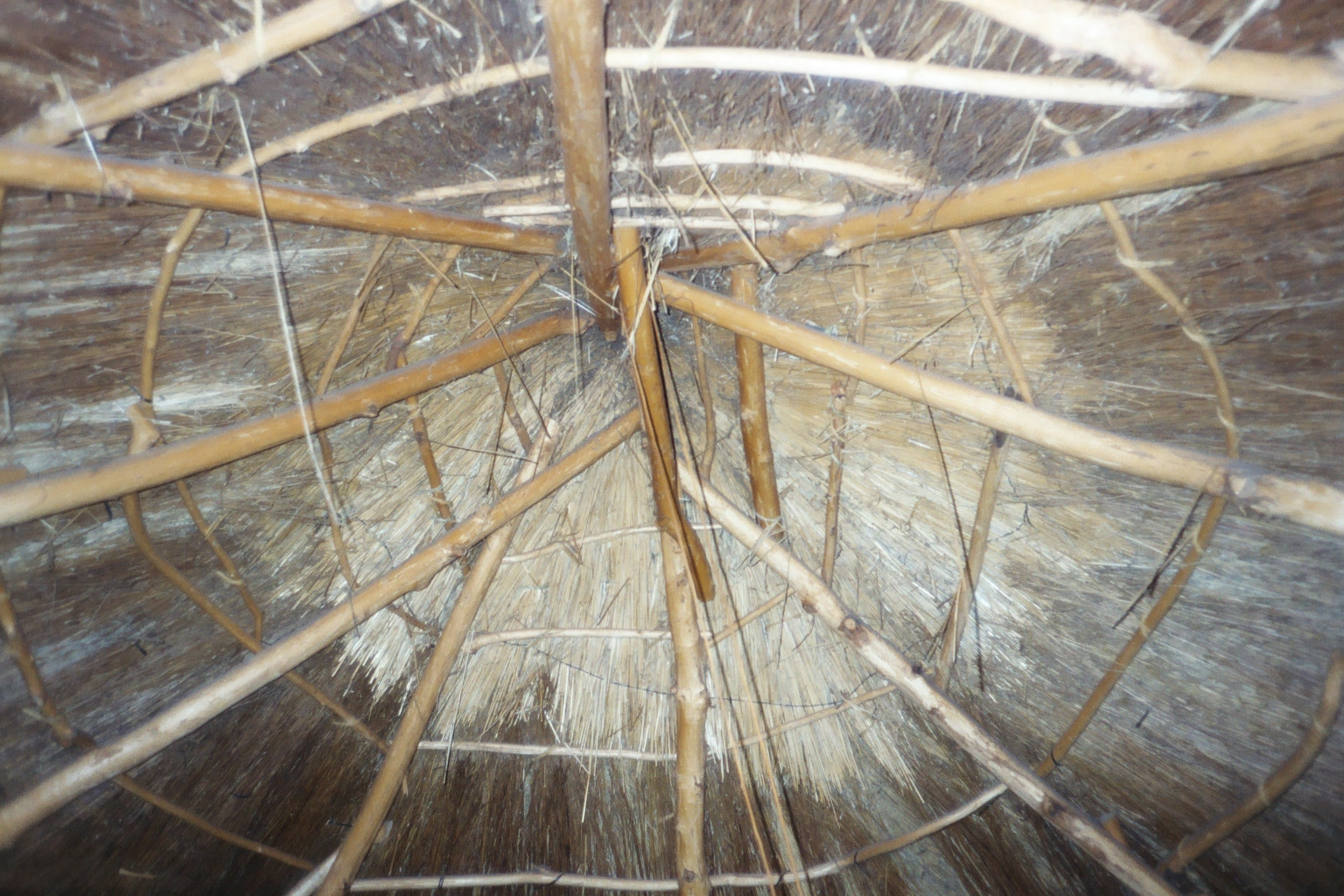 The inside of a rondavel looking up towards the ceiling. This picture was taken by Rich Tracy in a village in Lesotho during the time frame of 2002-2004. No copyrights reserved.